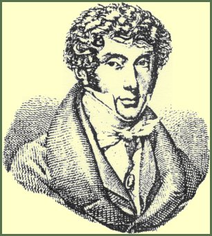 Portrait of the french flutist Louis Drouet